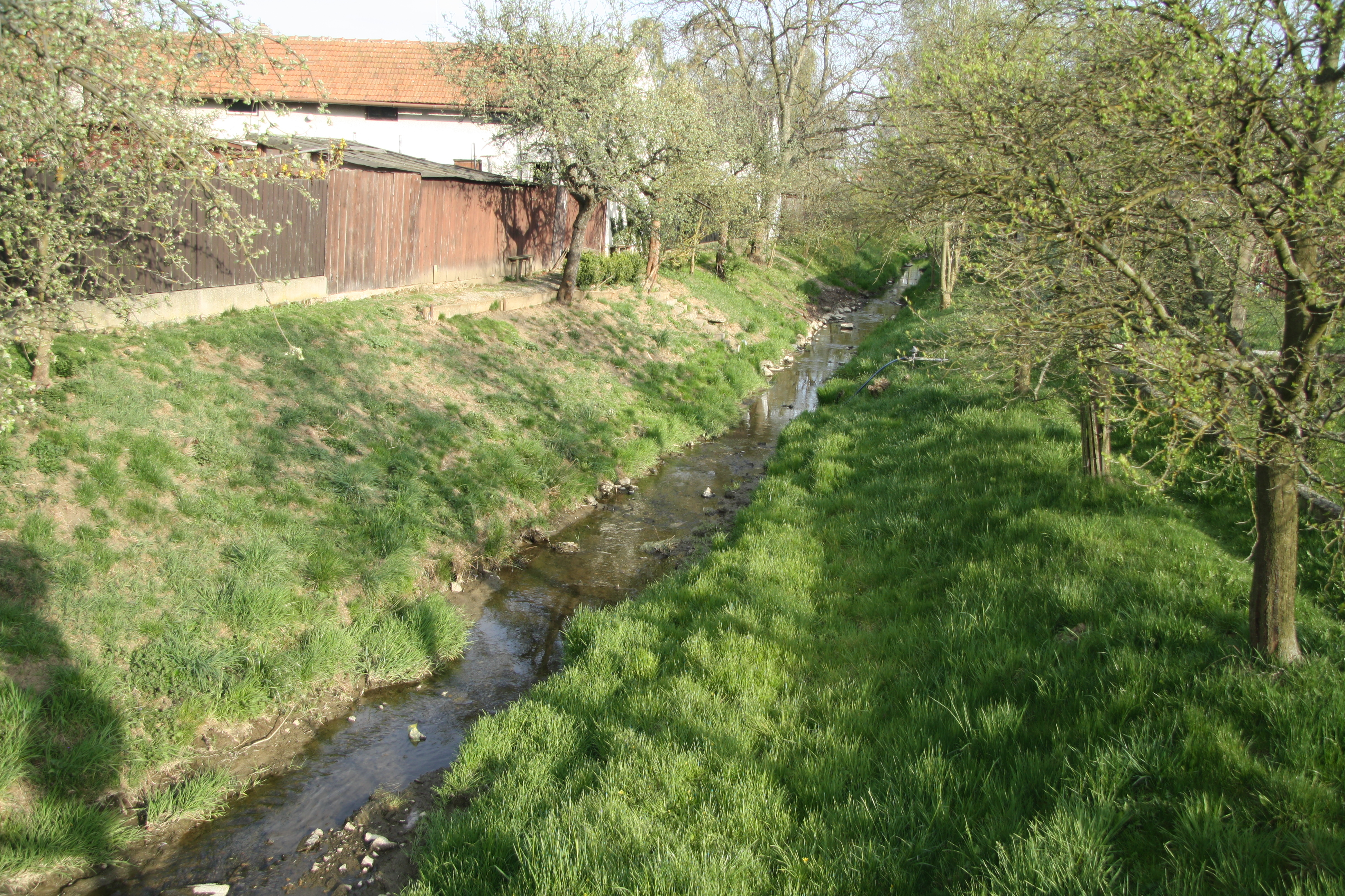 Jakubovský stream in Jakubov u Moravských Budějovic, Třebíč District.